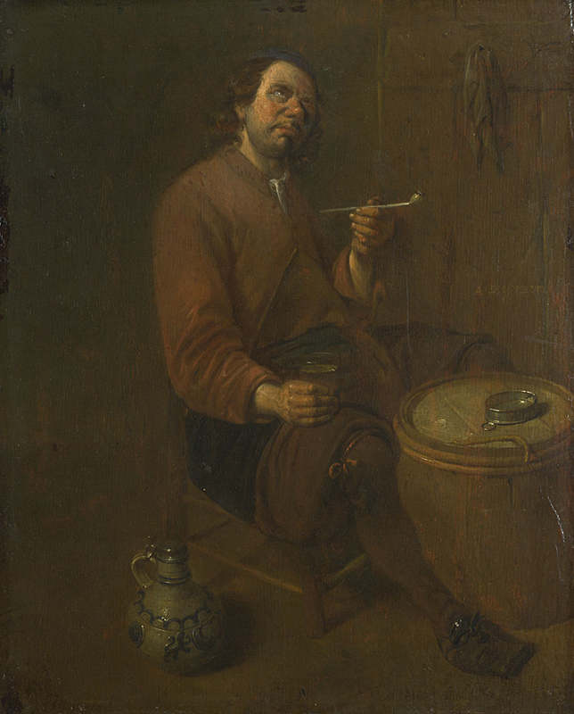 Arent (?) Diepraem, 1622 - 1670A Peasant seated smoking about 1650